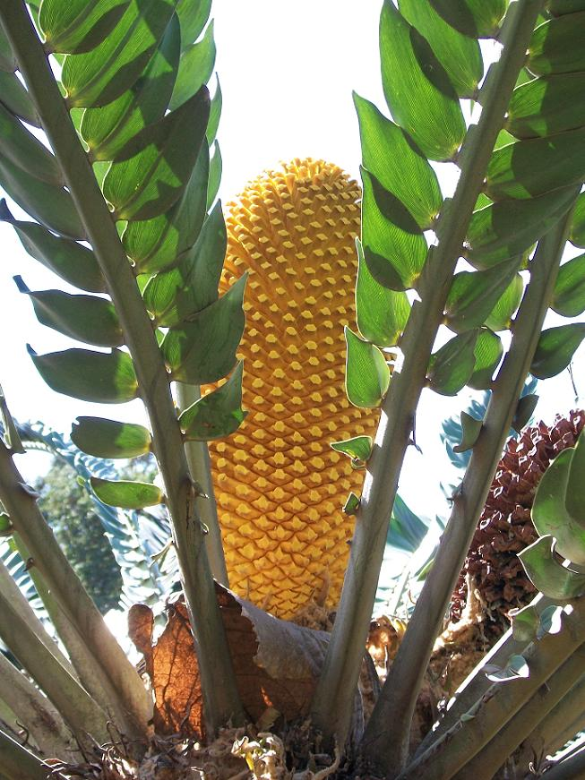 Cone and lower part of the leaves of a medium sized Encephalartos woodii at the Durban Botanic Gardens, South Africa